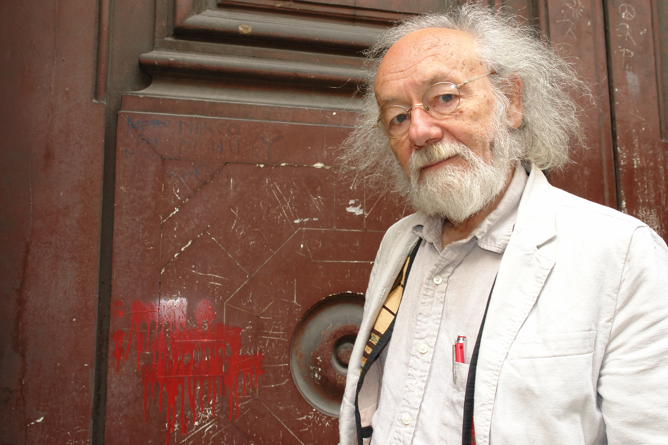 Lambert Schlechter, Luxembourg author, 2005.